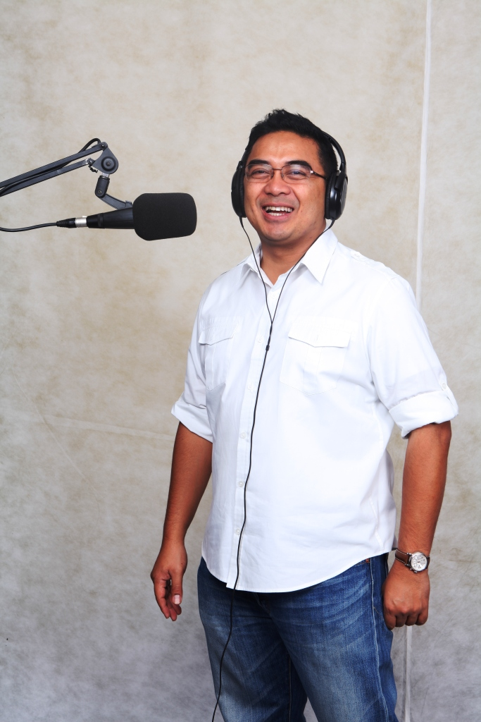 Announcer DeltaFM Radio